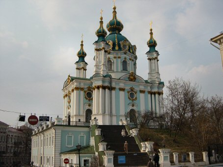 Church of Holy Andreas in Kiev, Ukraine.